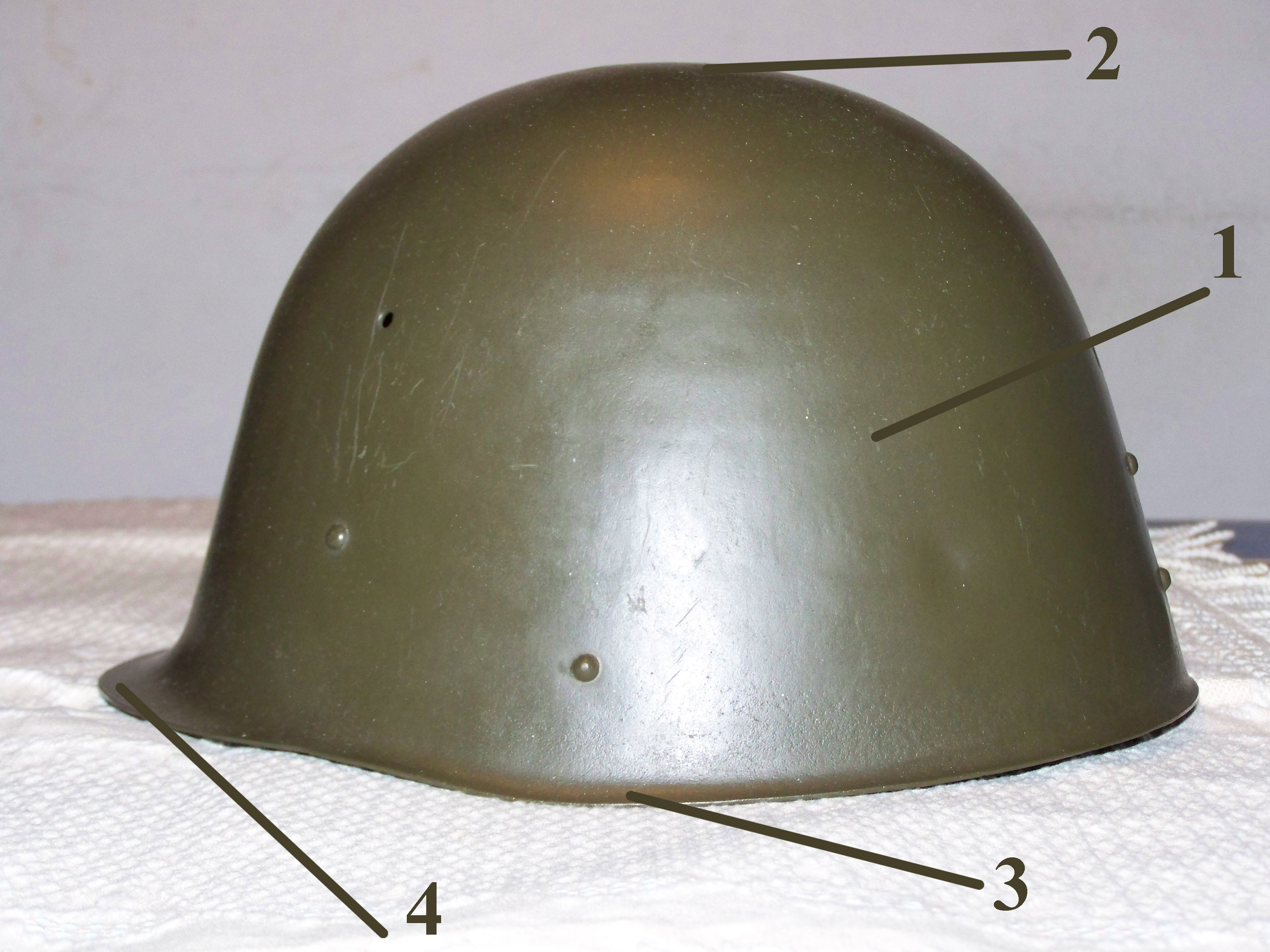 Parts of a steel helmet shell (Polish m. 1931/50). Scheme